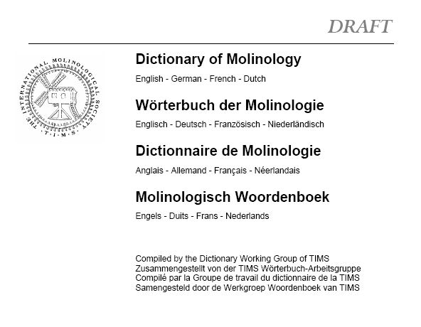 25 Januar 2009